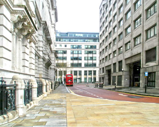 Angel Street Named, according to Harben, after the Angel Inn, which stood on the north side of the street.